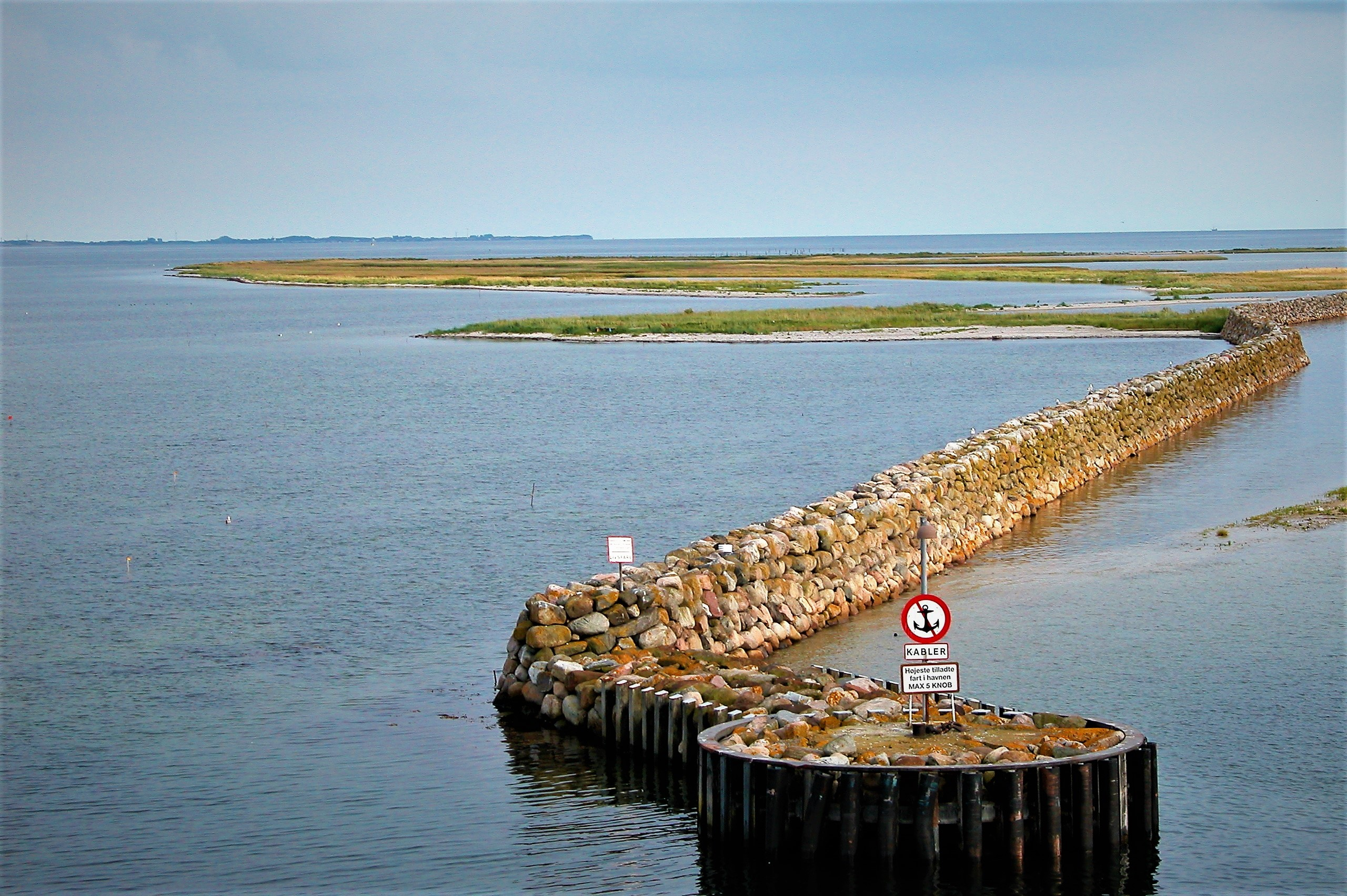 Harbour of Marstal, Ærø, Denmark